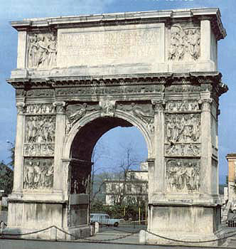 Arch of Trajan in Benevento (Italy)